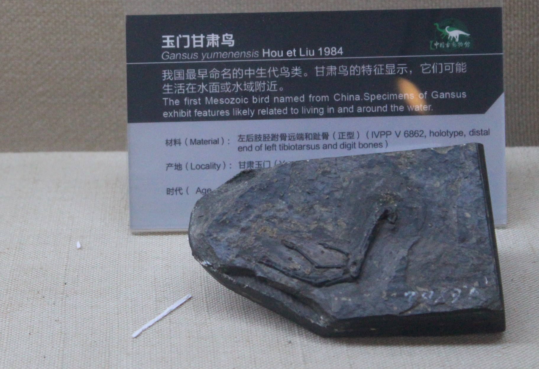 Holotype foot of Gansus yumenensis on display at the Paleozoological Museum of China.